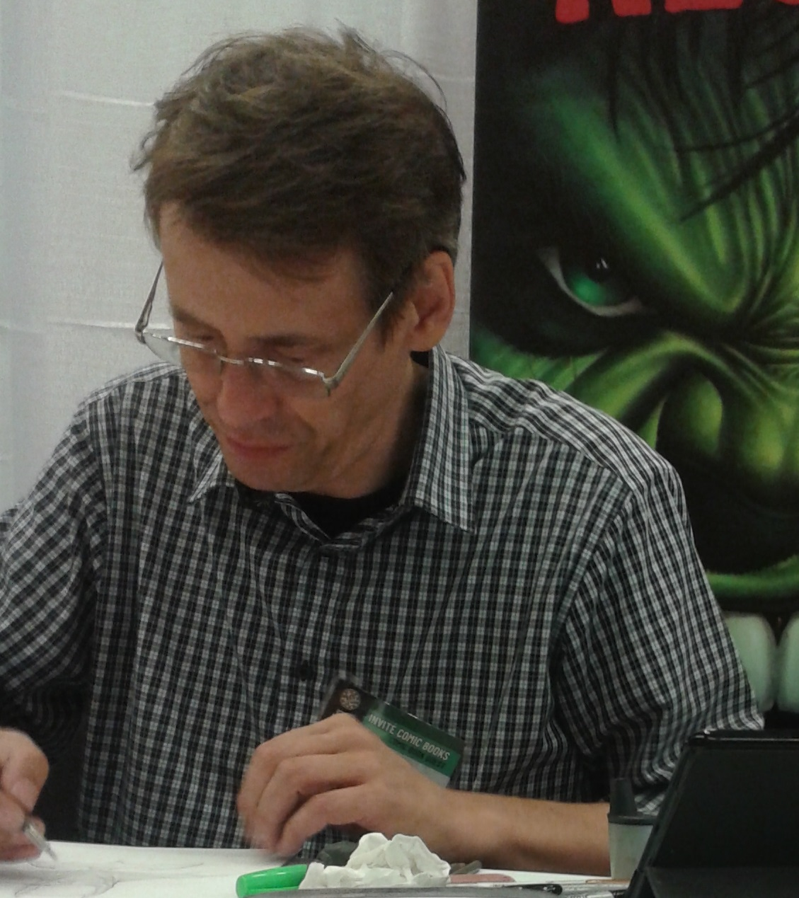 Dale Keown photographed in Montréal, Québec, Canada at the 2018 Montréal Comiccon].